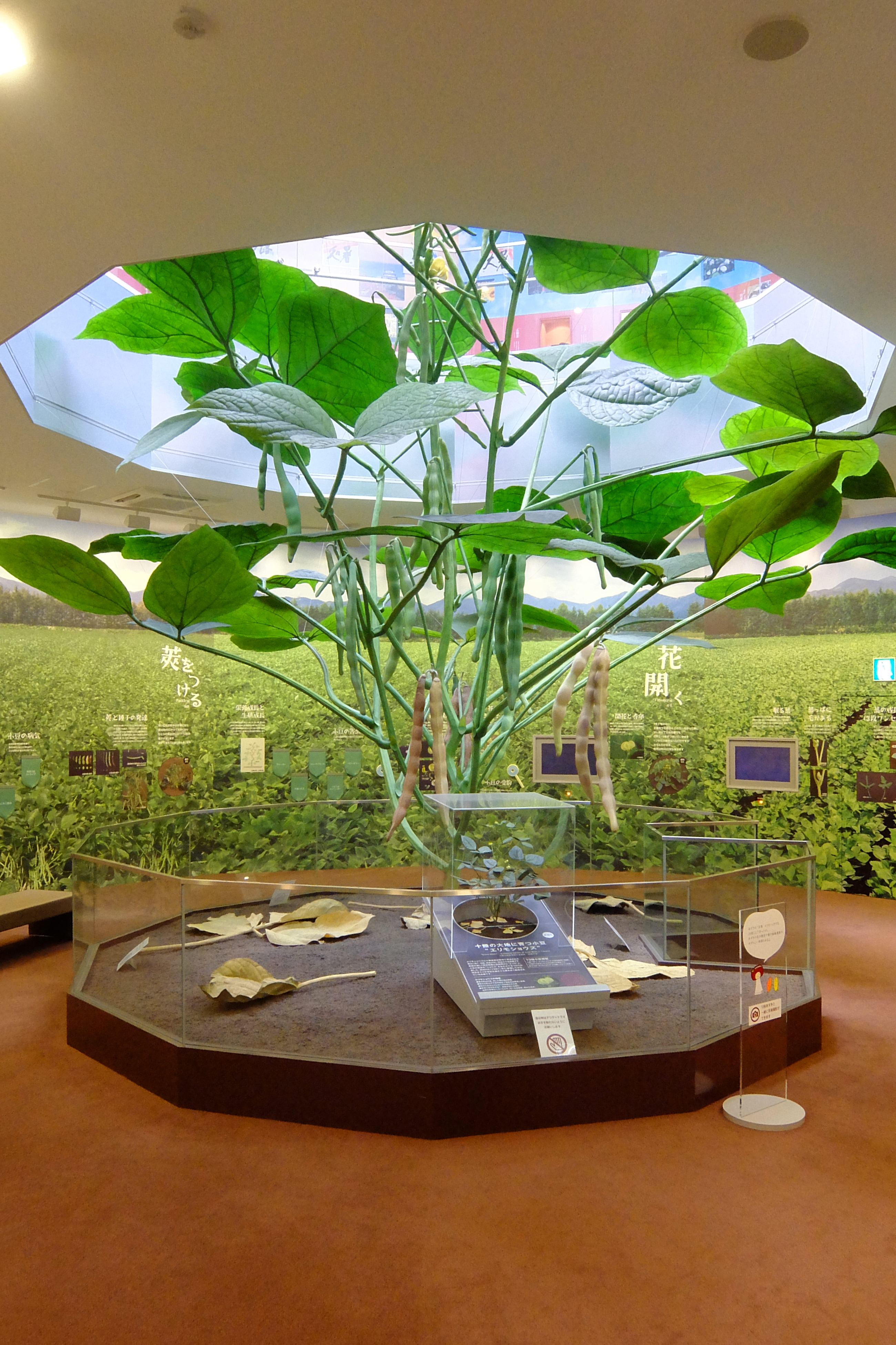 Azuki Museum in Himeji, Hyogo prefecture, Japan.